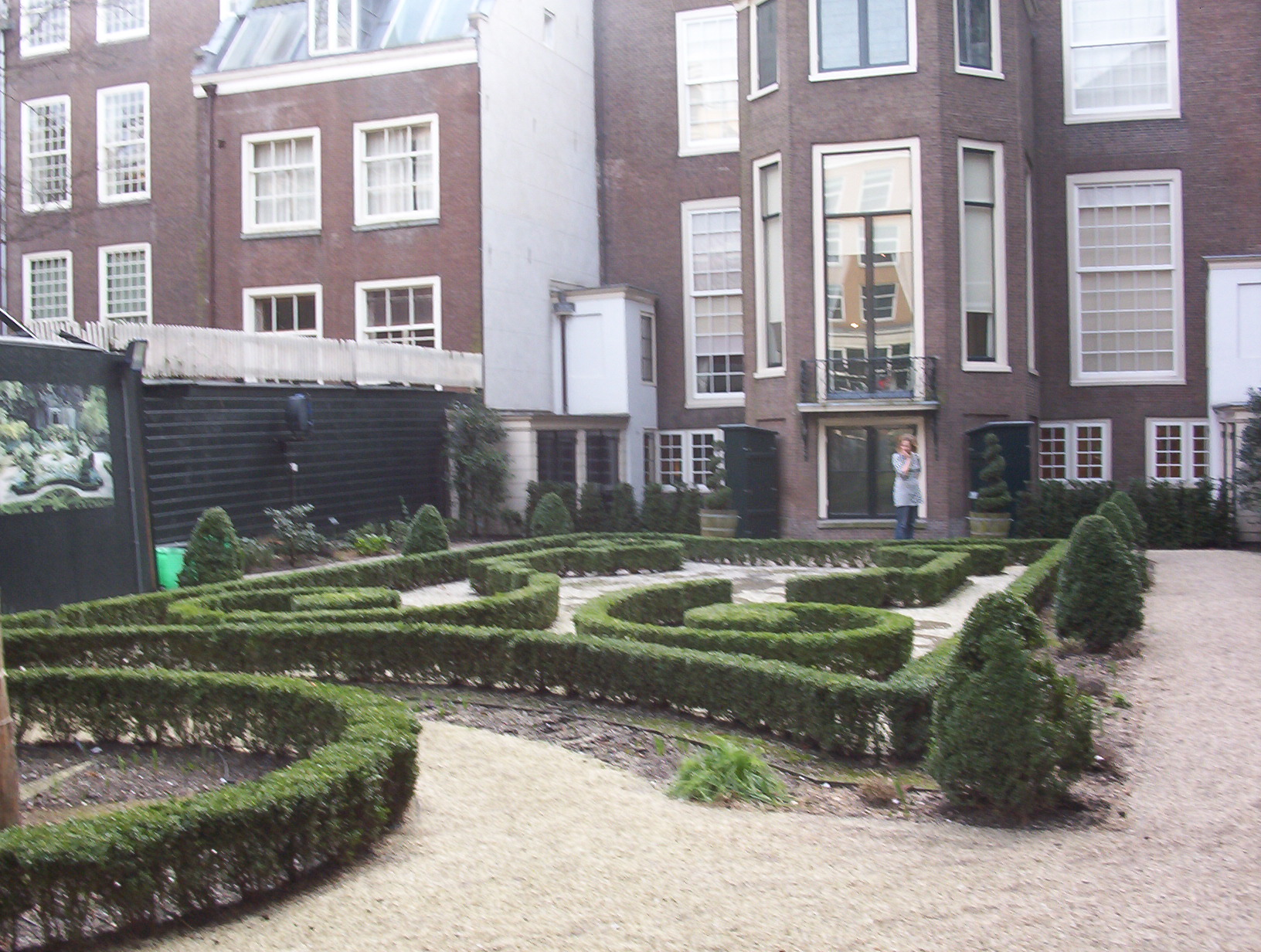 Willet-Holthuysen Museum, Herengracht 605, Amsterdam. Restored hortus in 18th century English style. Original garden statues unfortunately boxed for the winter months. Date foto: February 2007